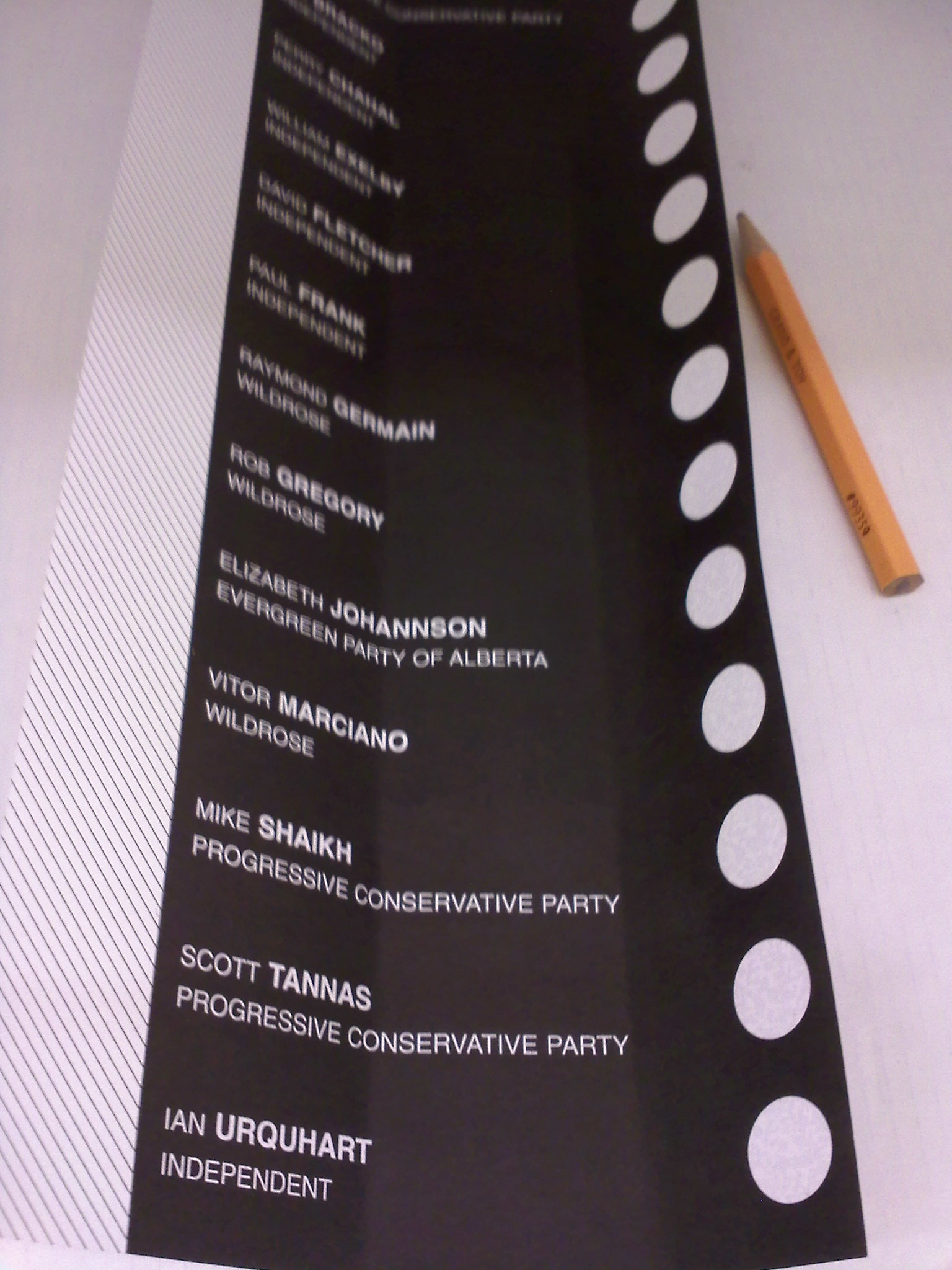 The long list of names on the ballot for the 2012 Alberta Senate nominee election.